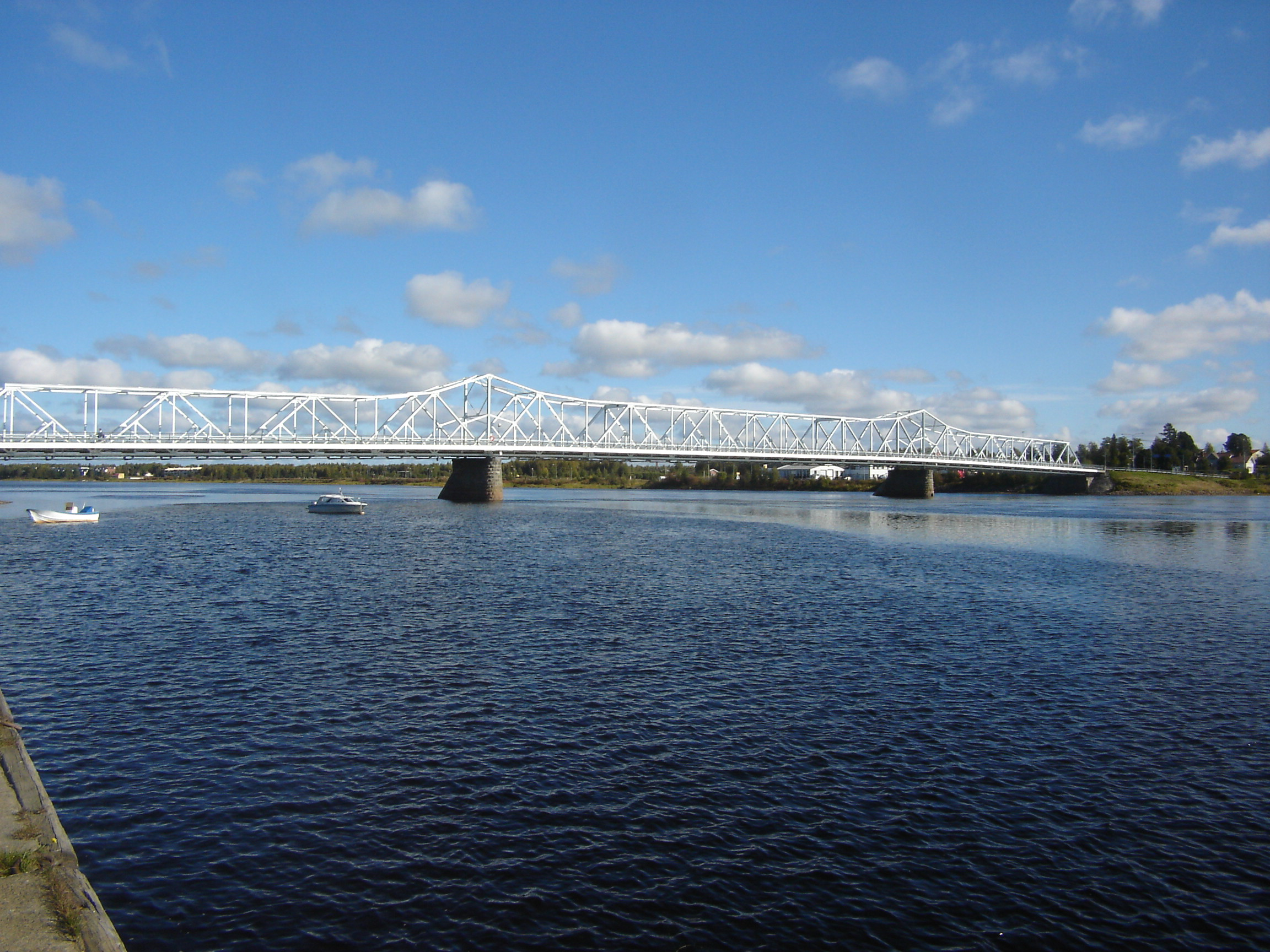 Hannula Bridge over Tornionjoki river in Tornio, Finland, seen from Suensaari